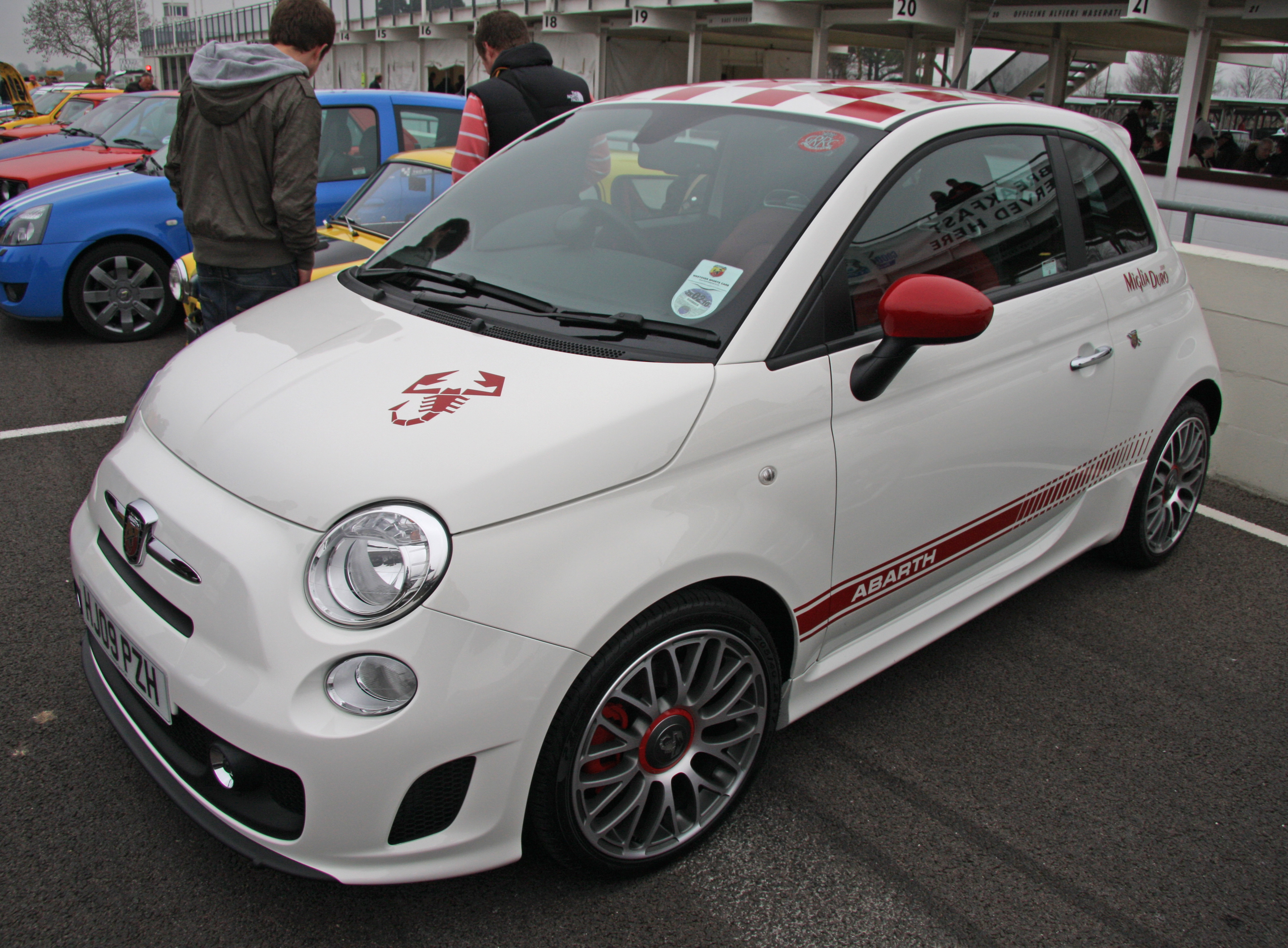 Fiat 500 Abarth